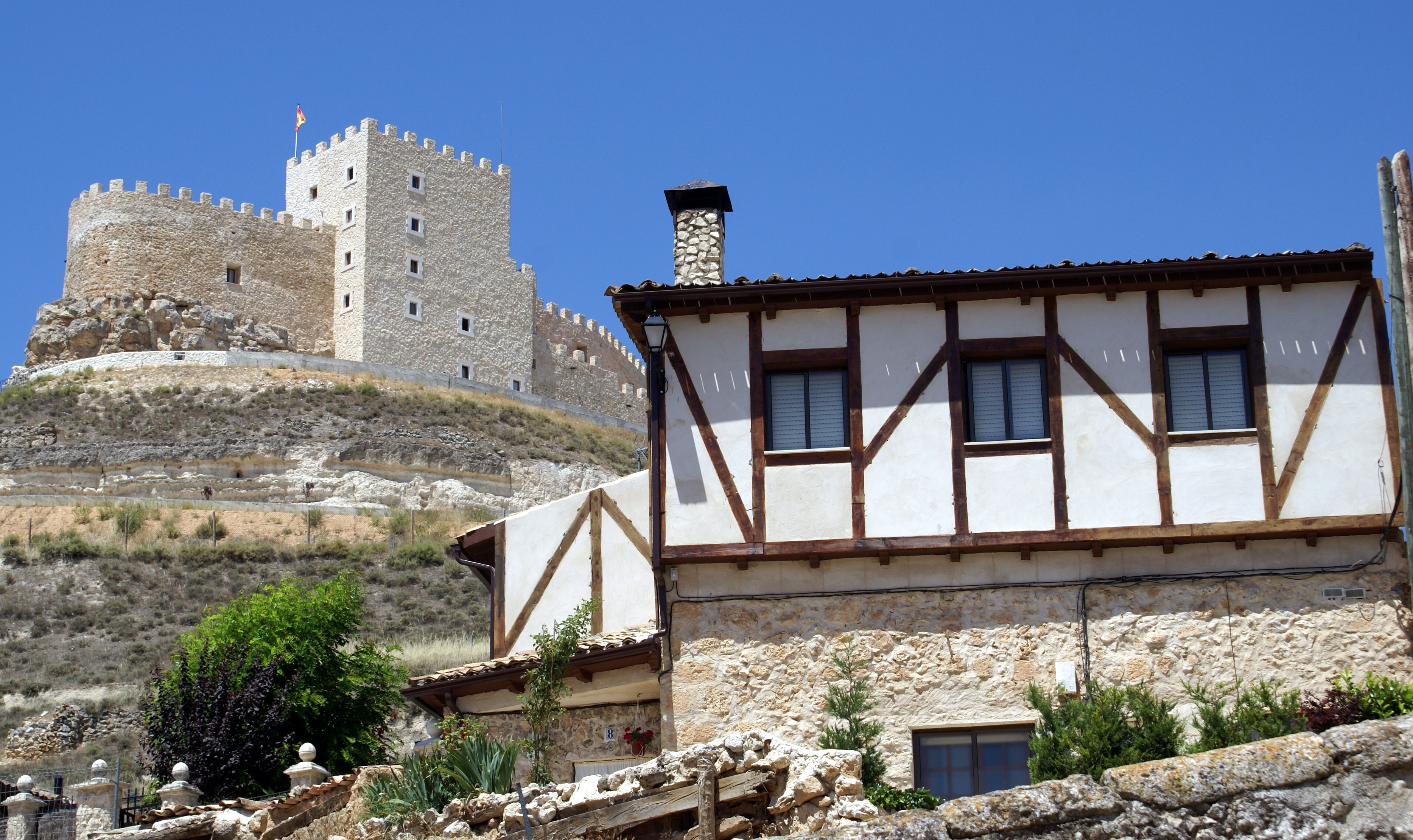 Castilian house and the castle in Curiel de Duero, Valladolid, Spain.